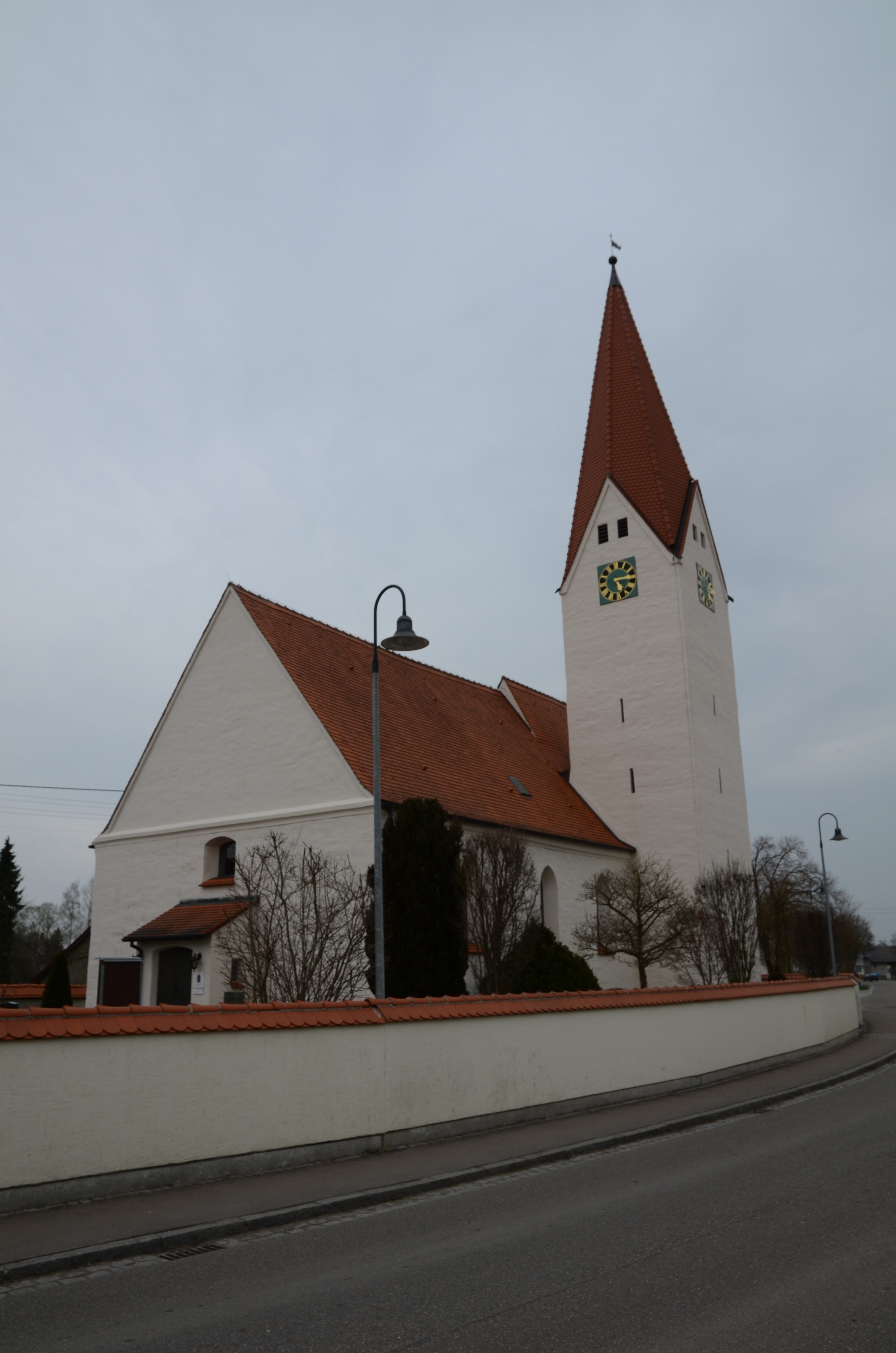 evang.-luth. Ambrosiuskirche in Riedheim